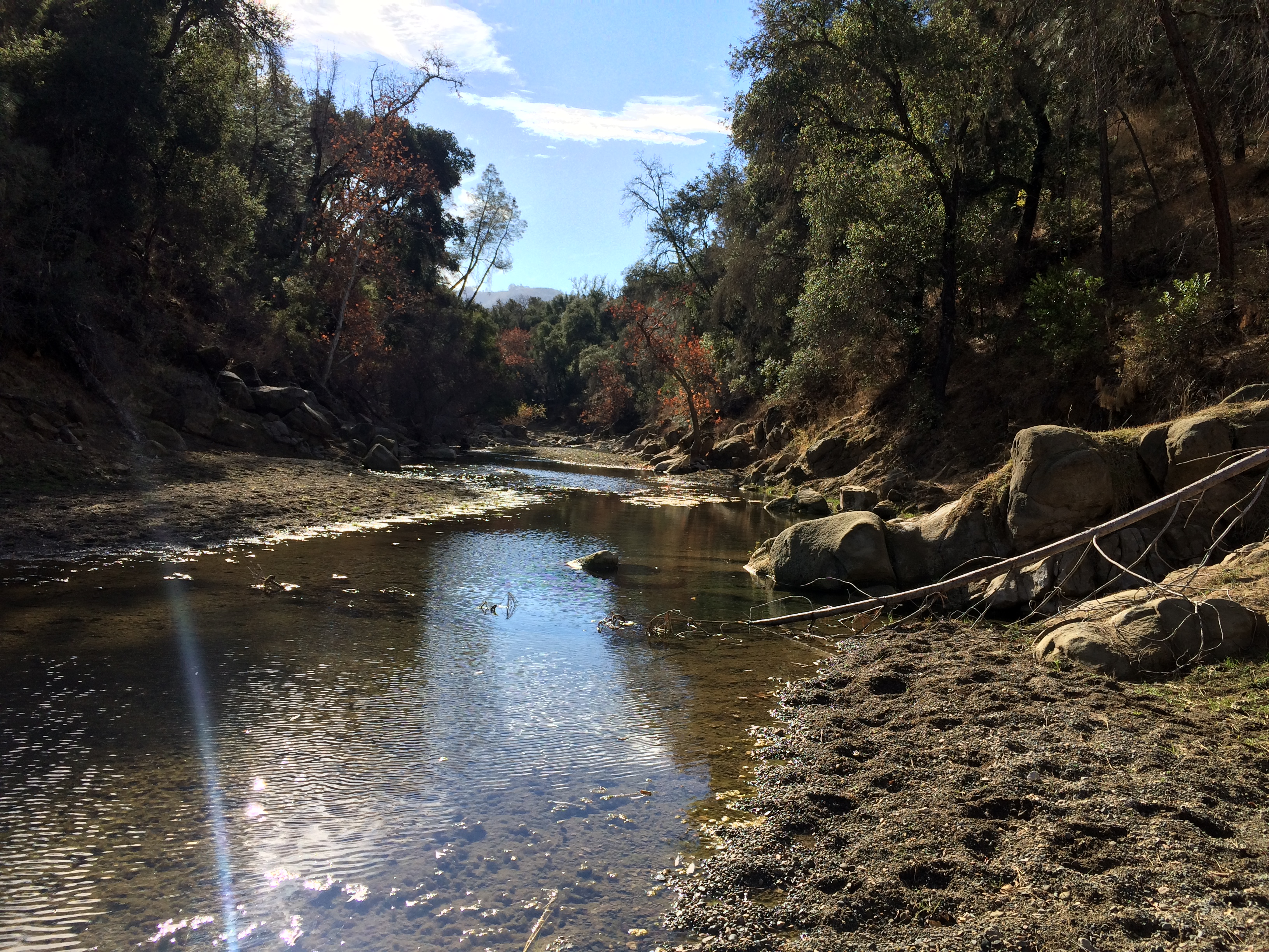 Creek leading into Lake Nacimiento located just outside of Central California's beloved wine country, Paso Robles.